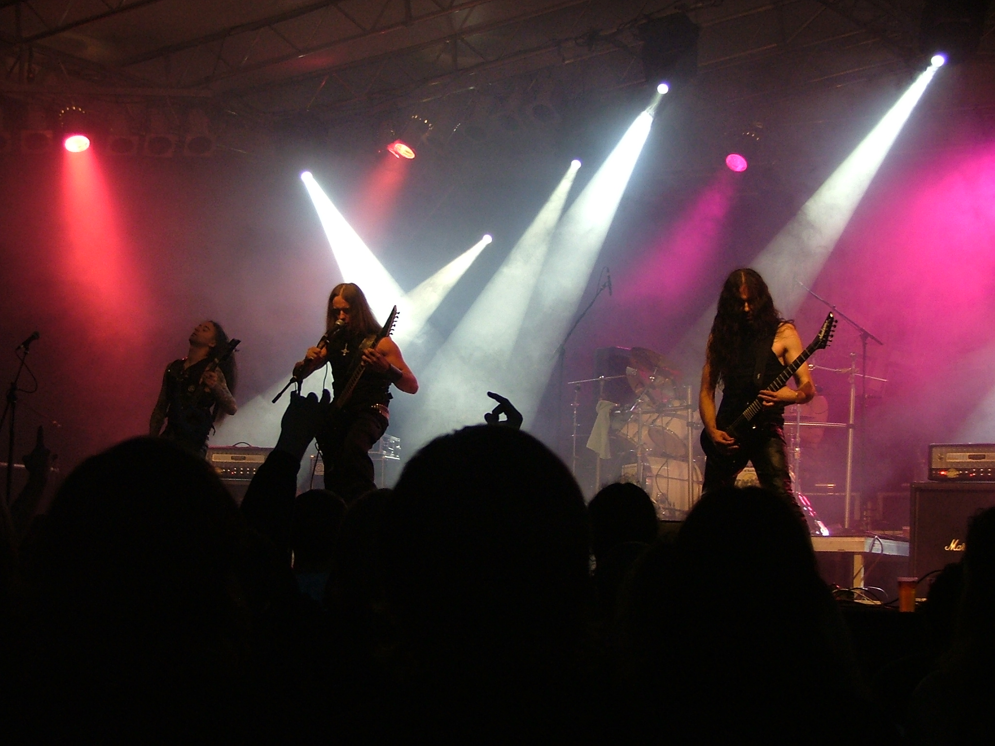 Austrian black metal band Belphegor at 'Rock the Lake' in Finkenstein am Faaker See